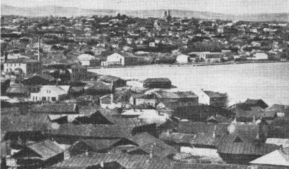 View from Tulcea at end of 19th century